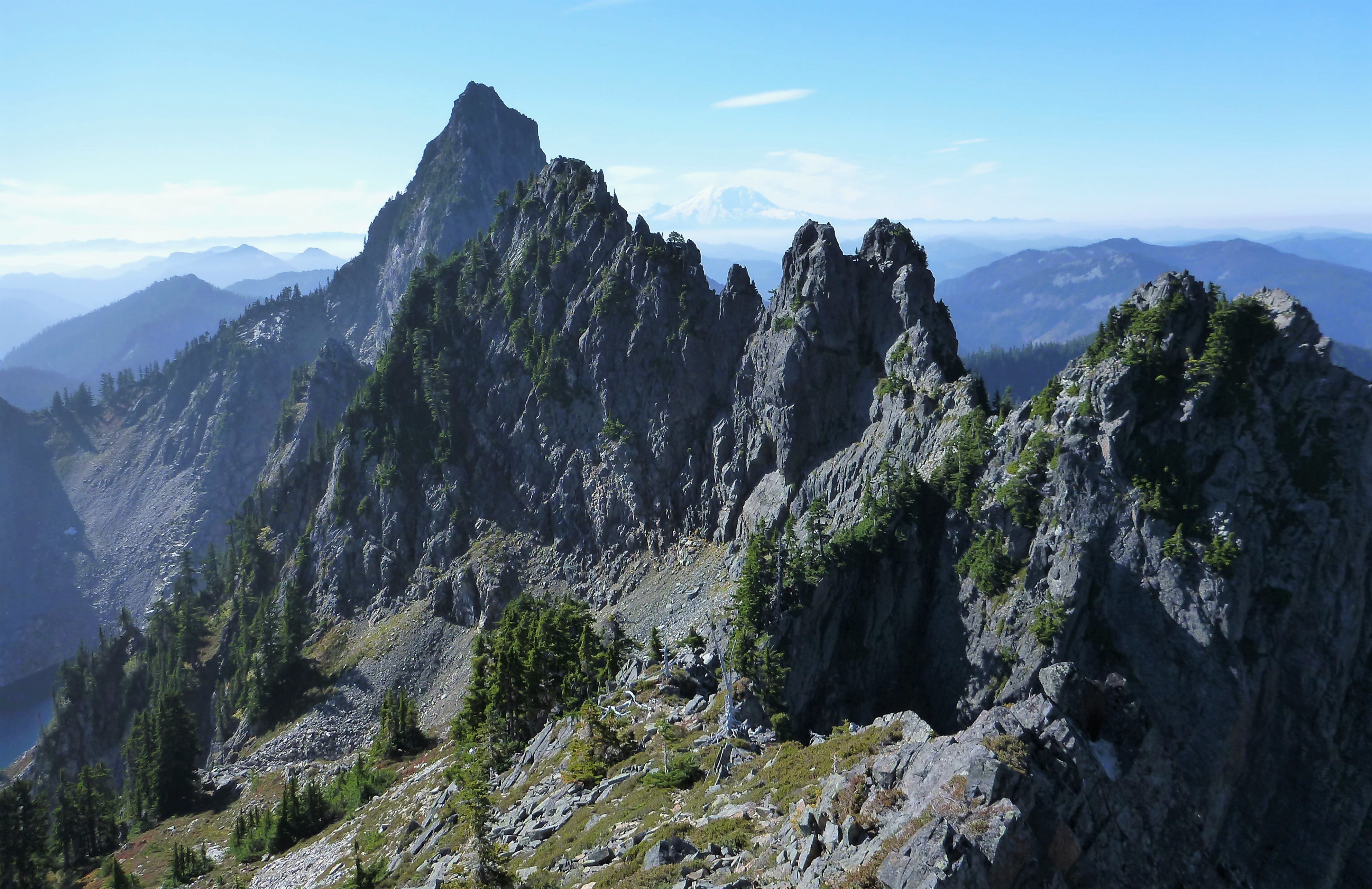 Mt. Roosevelt summit, with Kaleetan Peak in back